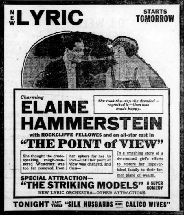 Newspaper advertisement for the American drama film The Point of View (1920) with Elaine Hammerstein and Rockliffe Fellowes, on page 4 of the September 28, 1920 The Duluth Herald.